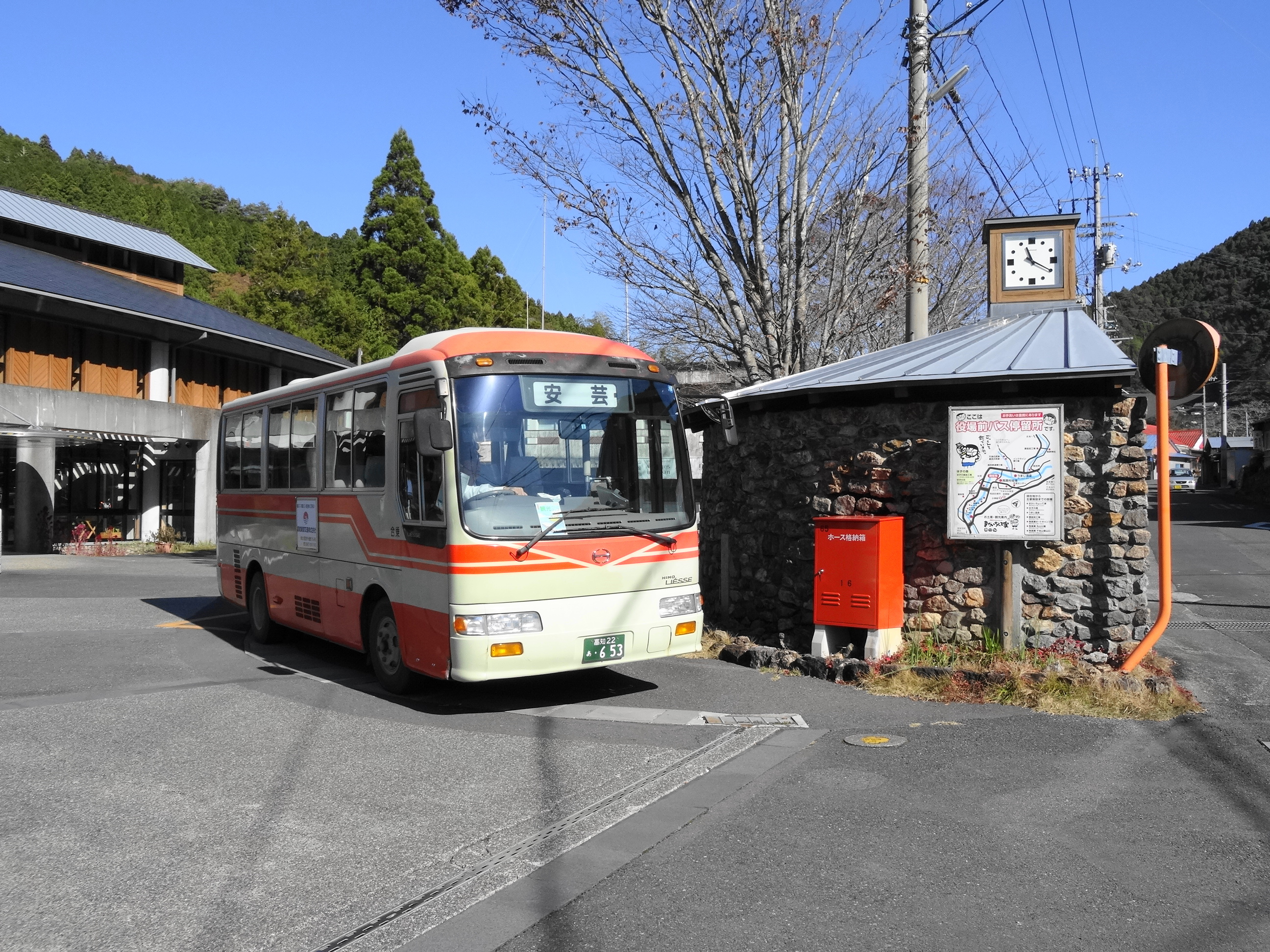 Umaji Yakuba mae